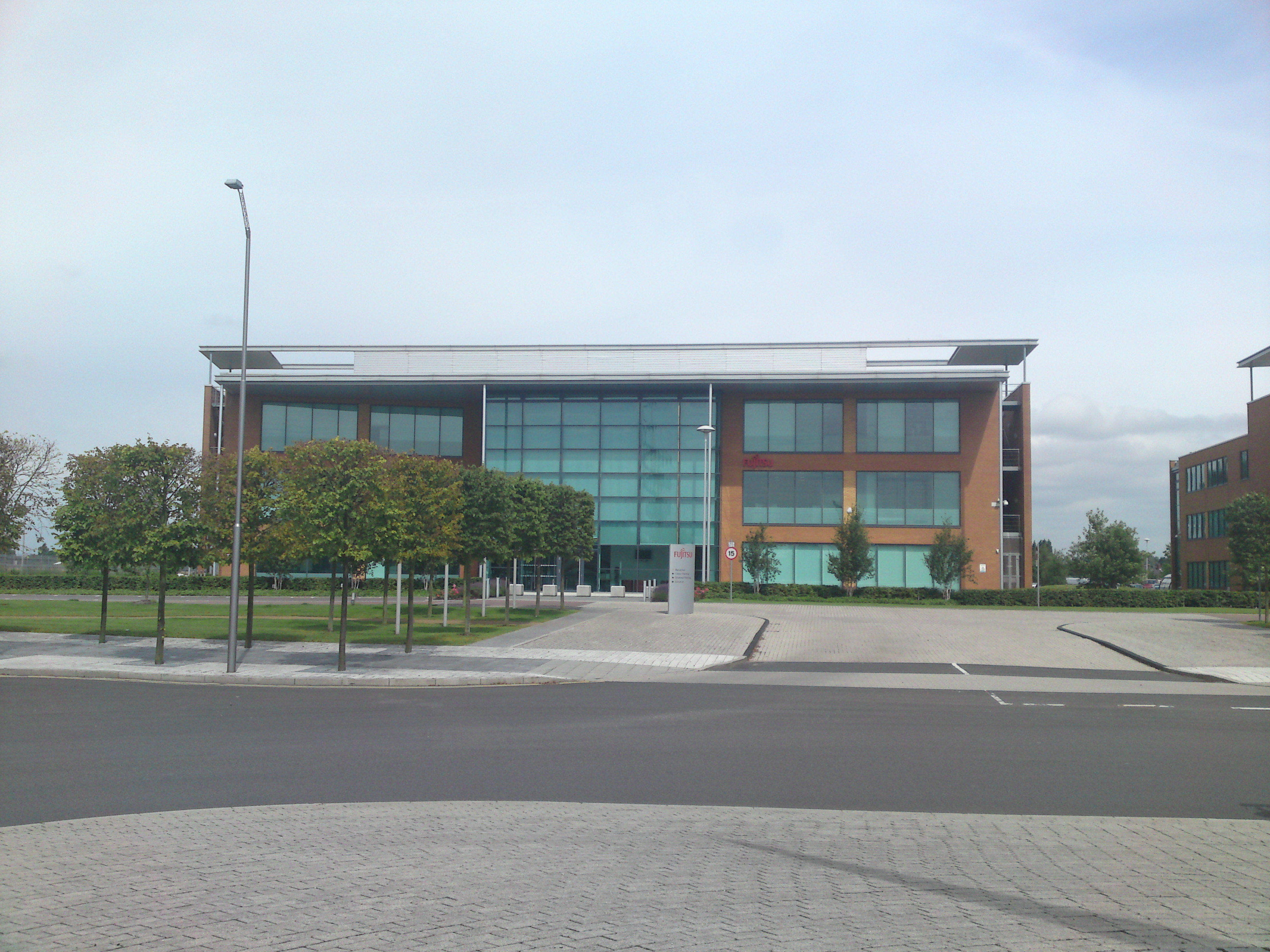 The Fujitsu offices that occupy the location of Manchester United's former ground, North Road, in Newton Heath